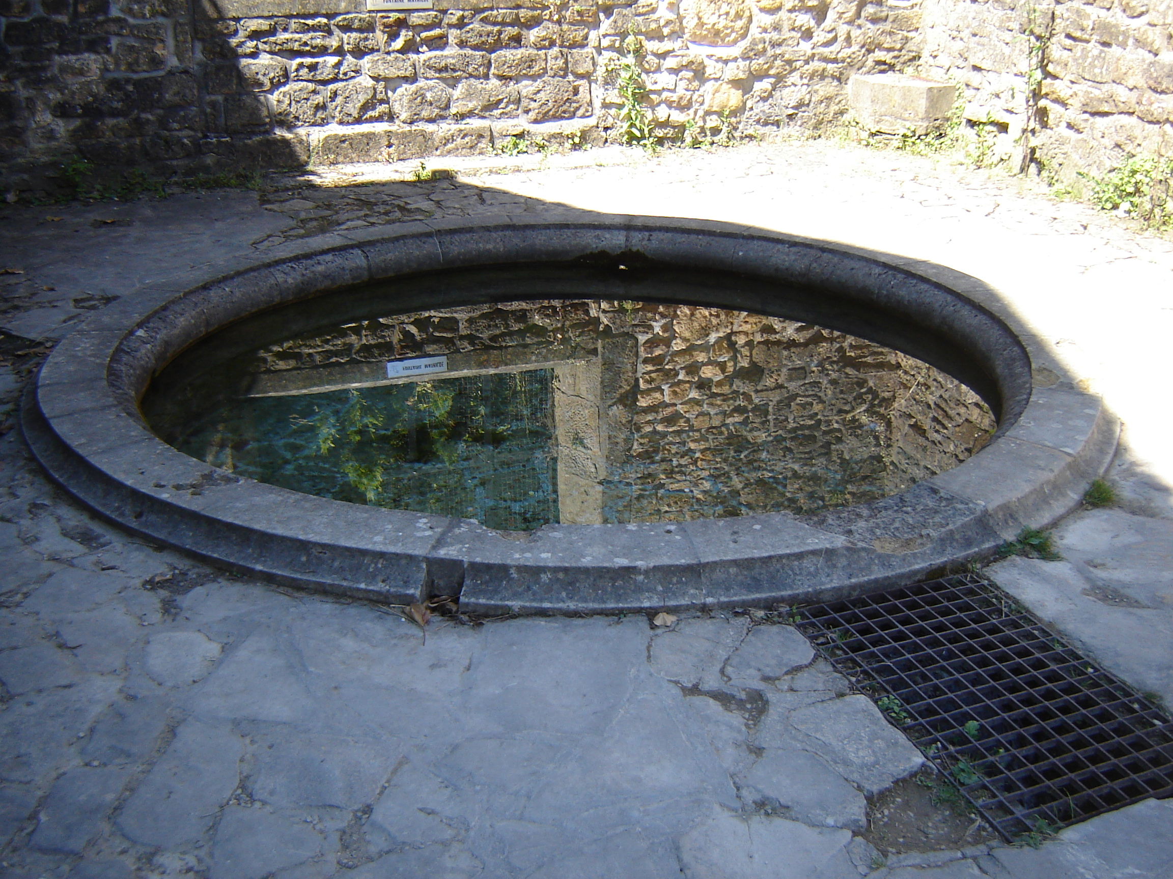 Abbaye d'Orval (Orval Abbey). Fontaine Mathilde in the ruins of the old abbey. Villers-devant-Orval, Florenville, Belgium.